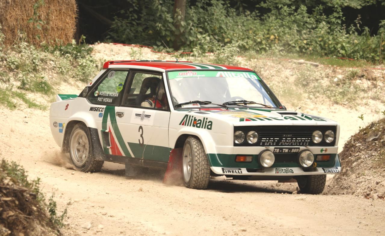 pictures from friday at fos